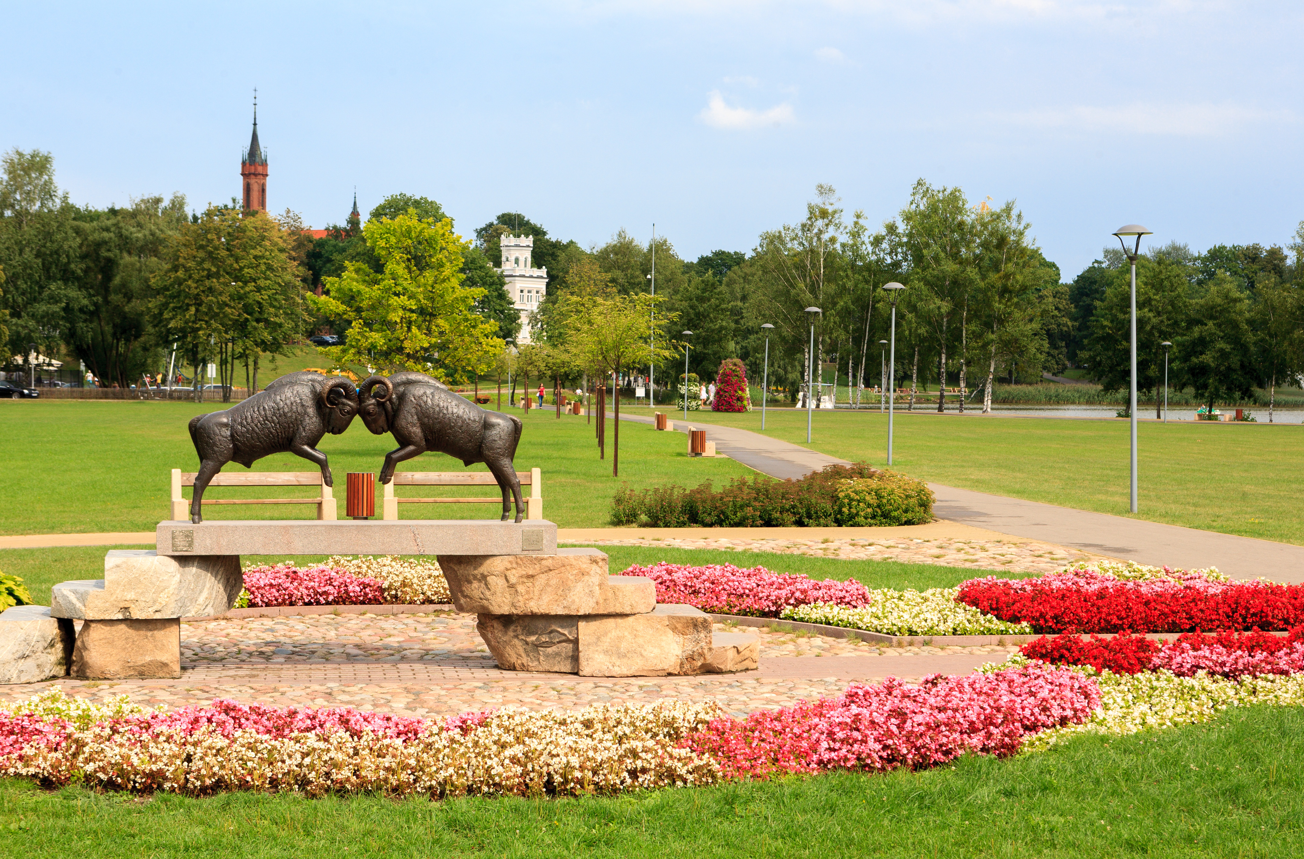 Leisure promenade in central Druskininkai